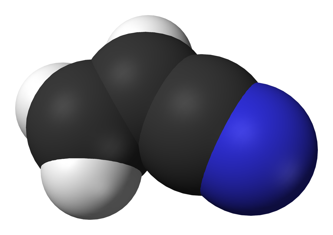 Space-filling model of the acrylonitrile molecule